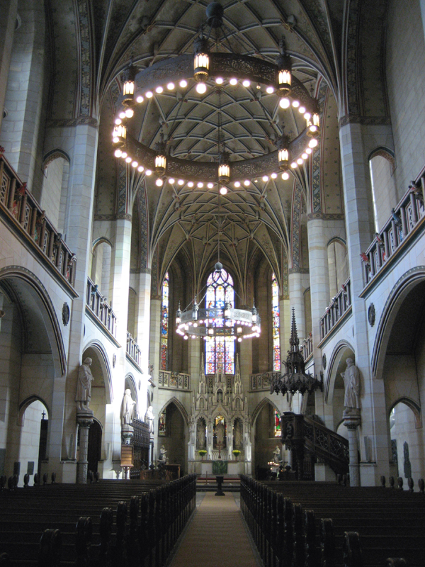 Inside the Nave of the Schlosskirche Wittenberg